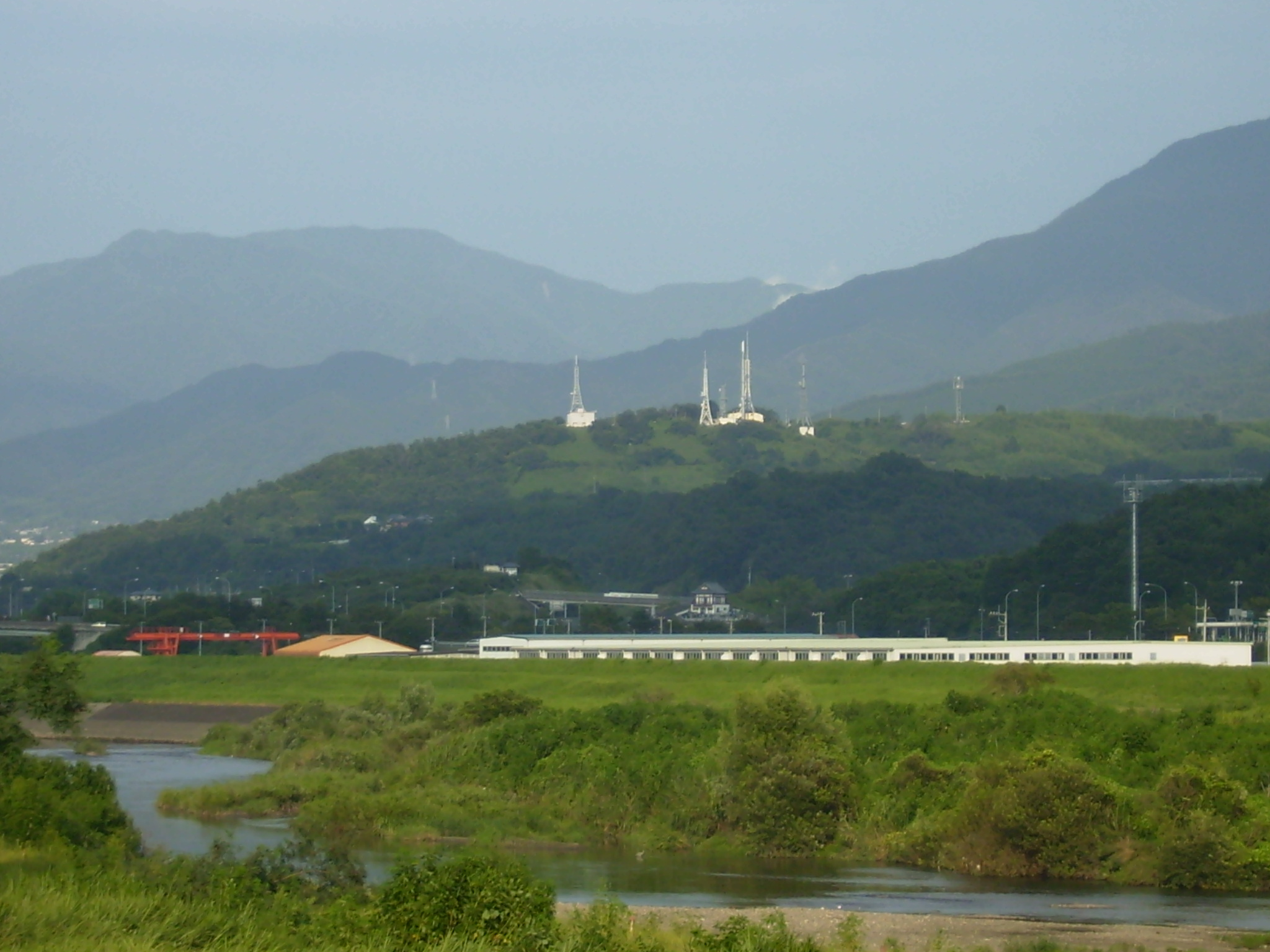 A far view of the VHF/UHF transmitting site on the Bohgamine (坊ヶ峰) peak, Sakaigawa, Yamanashi Prefecture, Japan, looked from the Fuefuki river (笛吹川) The peak is at the east boundary of the Kofu basin (甲府盆地) with the height of 395 m above sea level, c.a. 200 m above the basin, the service area of boradcasts. Photographed and uploaded by myself.